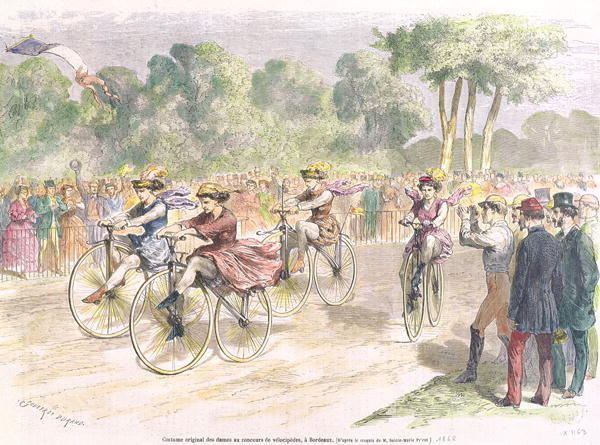 Original Costumes for the Velocipede Race in Bordeaux, Gironde, France.